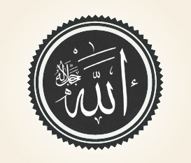 Allah